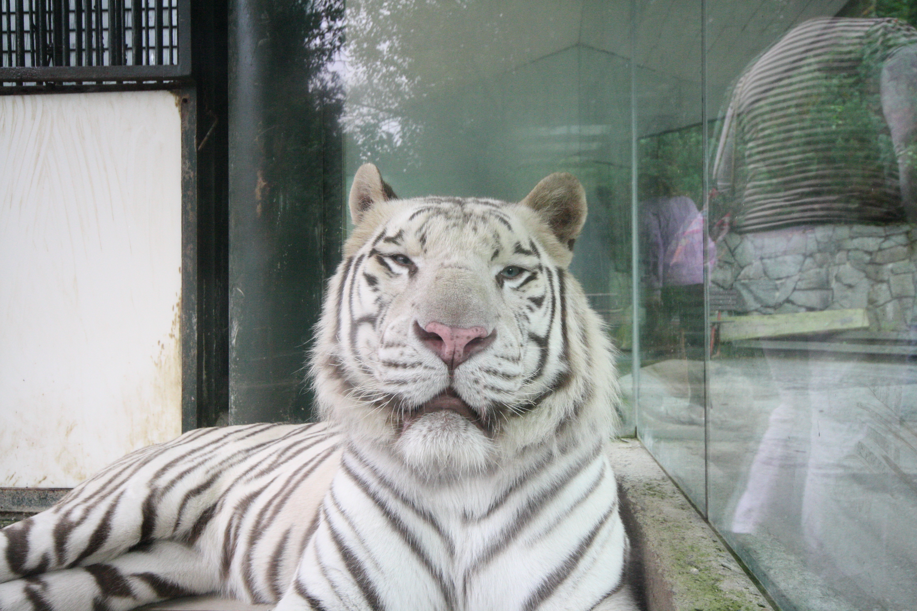 Head of Panthera tigris in Liberec Zoo.